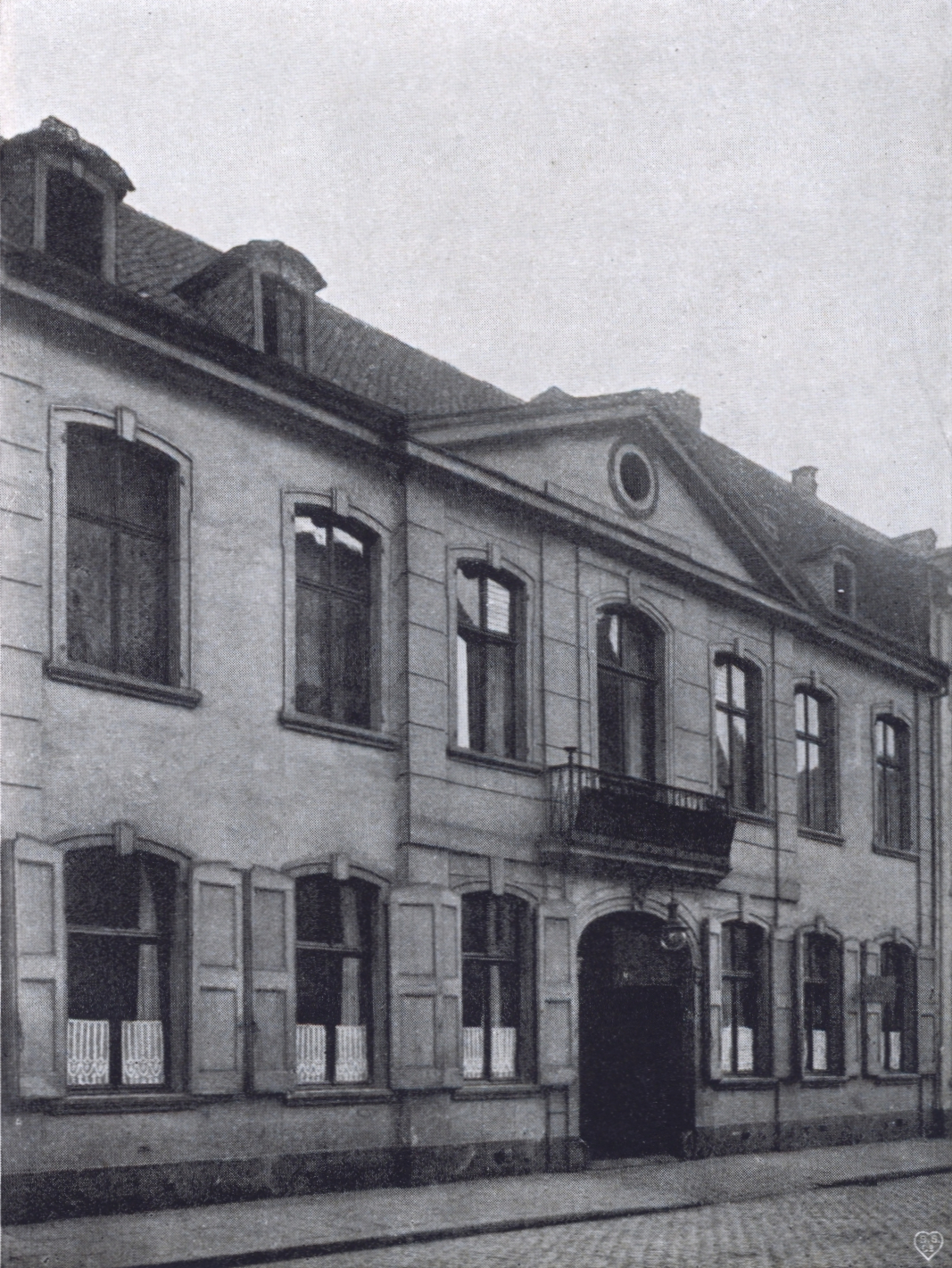 t